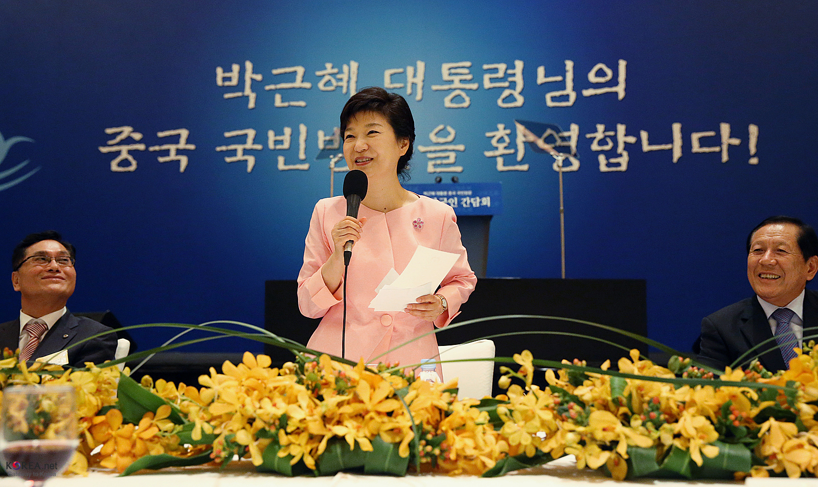 President Park Geun-hye’s state visit to China Photo=Cheong Wa Dae (Related Article) Presidential visit opens new era in Korea-China ties Presidential trip to reshape future vision of Seoul-Beijing ties President Park holds 1st Korea-China summit in Beijing 박근혜 대통령 중국 국빈방문 사진=청와대 韩国总统朴槿惠 将对中国进行国事访问 韩国总统朴槿惠访华 打开中韩未来新篇章 朴槿惠同中国国家主席习近平举行首次首脑会谈 韩总统朴槿惠访华 为韩中关系设定新的未来愿景